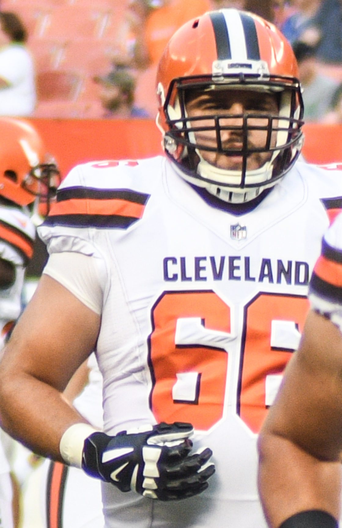 Cleveland Browns vs. New York Giants